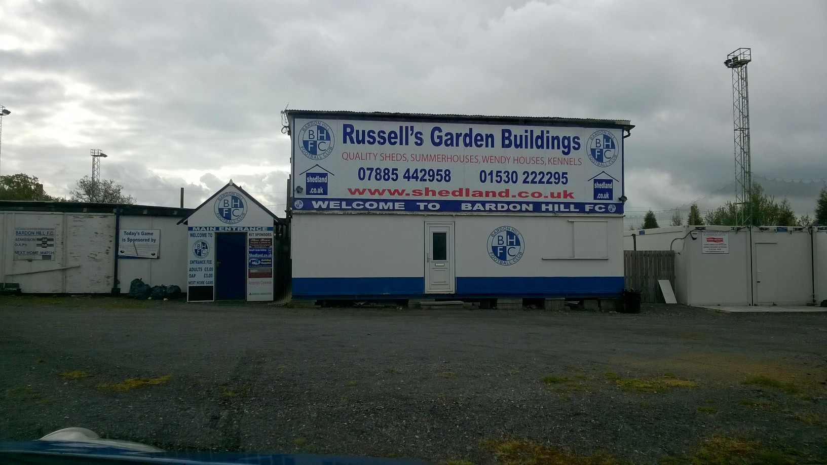 The entrance to Bardon Hill F.C.'s stadium. Photo taken by myself.